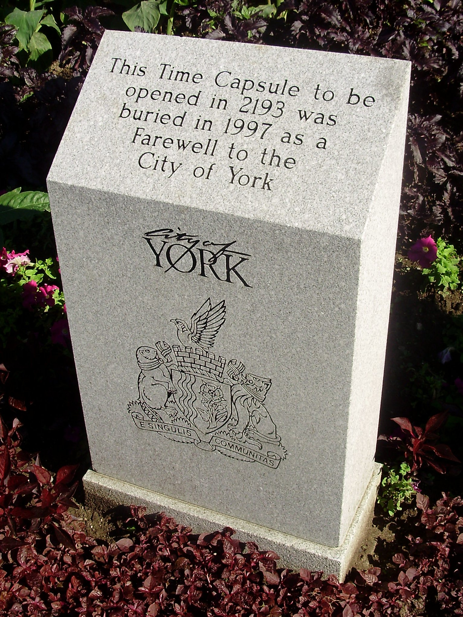 This time capsule, located on the grounds of the York Civic Centre in Toronto, Ontario, Canada adjacent to the city of York's war memorial, was created and sealed on the occasion of the amalgamation of the six independent cities of Metropolitan Toronto in 1998. It is expected to be opened in 2193, on the four hundredth anniversary of Toronto's foundation.